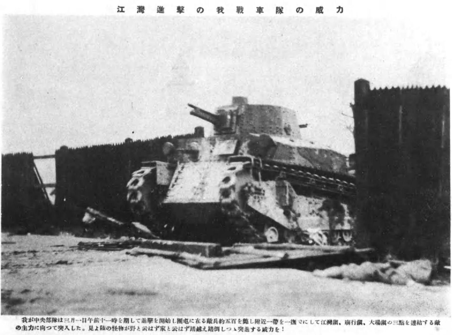 Japanese tank advancing toward Chiang-Wan-Chen.